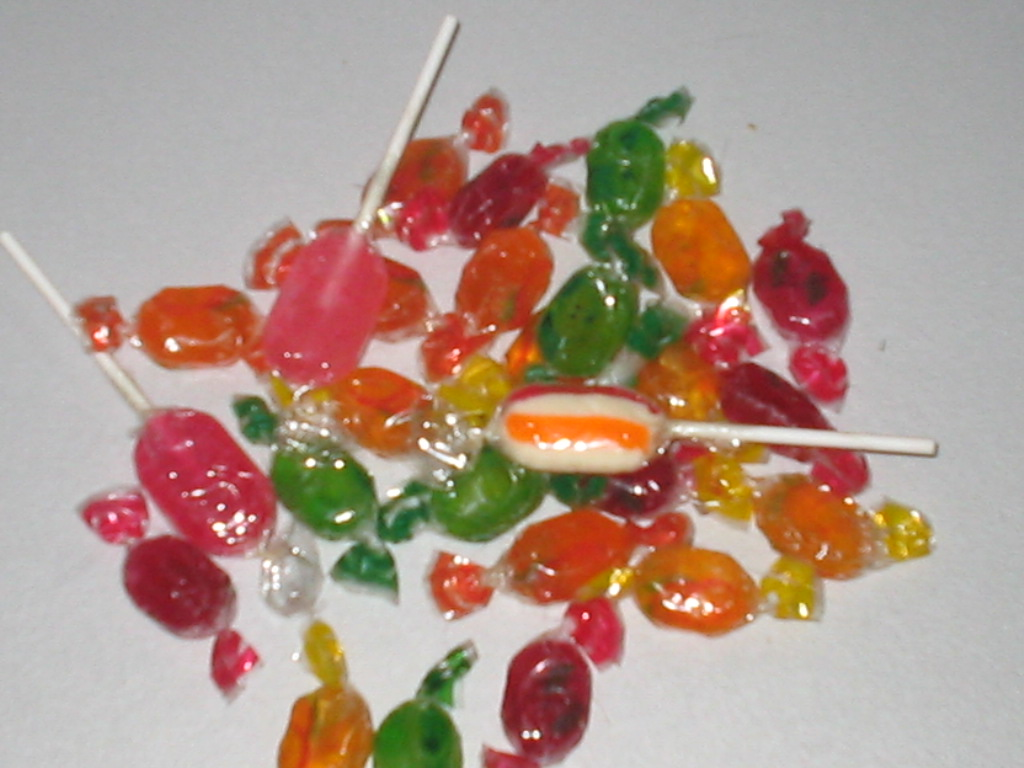 Boiled sweets with acid such as from lemon to give a sour flavour.